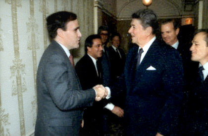 President Ronald Reagan, Larry Speakes, and Robert DeProspero (6-7) Arrival on Air Force One at Newark International Airport during trip to New York President Ronald Reagan (8A-11) Arrival on helicopter Marine One at the 30th Street helipad during trip to New York President Ronald Reagan, Jorgen Hansen, Joseph Rantizzi, James Fayak, Dave Fischer, and James Baker (12-16) Photo opportunity with Jorgen Hansen, Joseph Rantizzi, and James Fayak of the Waldorf Astoria Hotel President Ronald Reagan, Rudolph Giuliani, Robert DeProspero, and James Baker (17-18) Photo opportunity with Rudolph Giuliani, United States Attorney, Southern District of New York